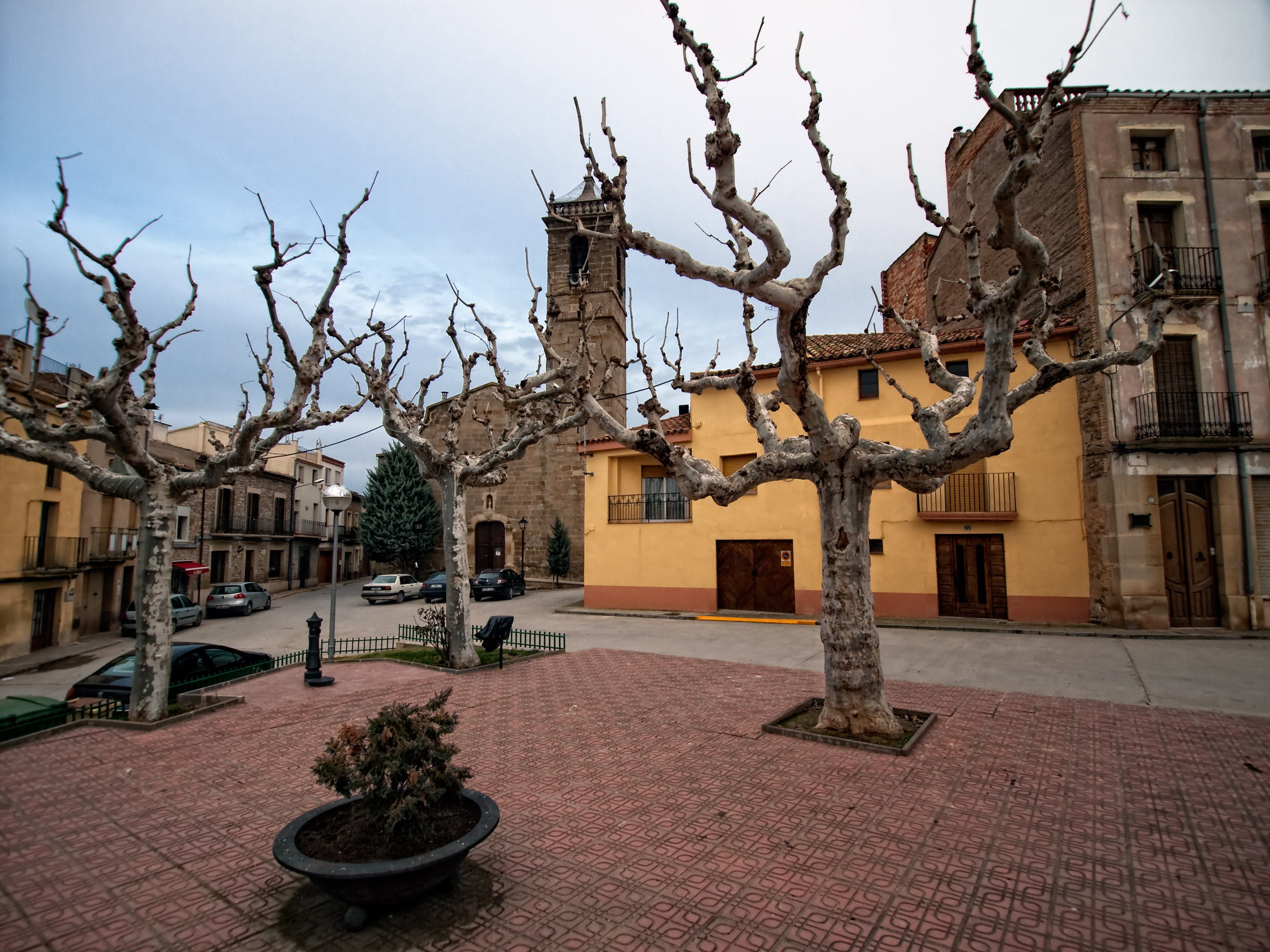 Santa Llúcia church square of La Fuliola (Catalonia, Spain)